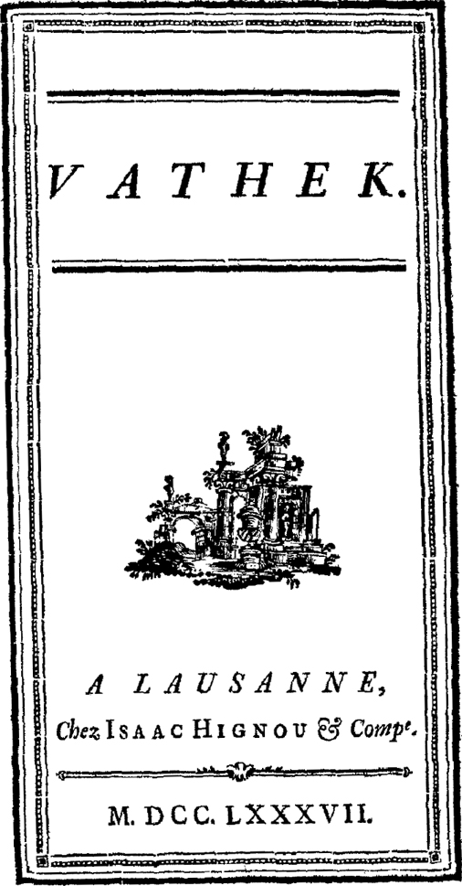 Frontispiece of William Thomas Beckford's Vathek, conte arabe